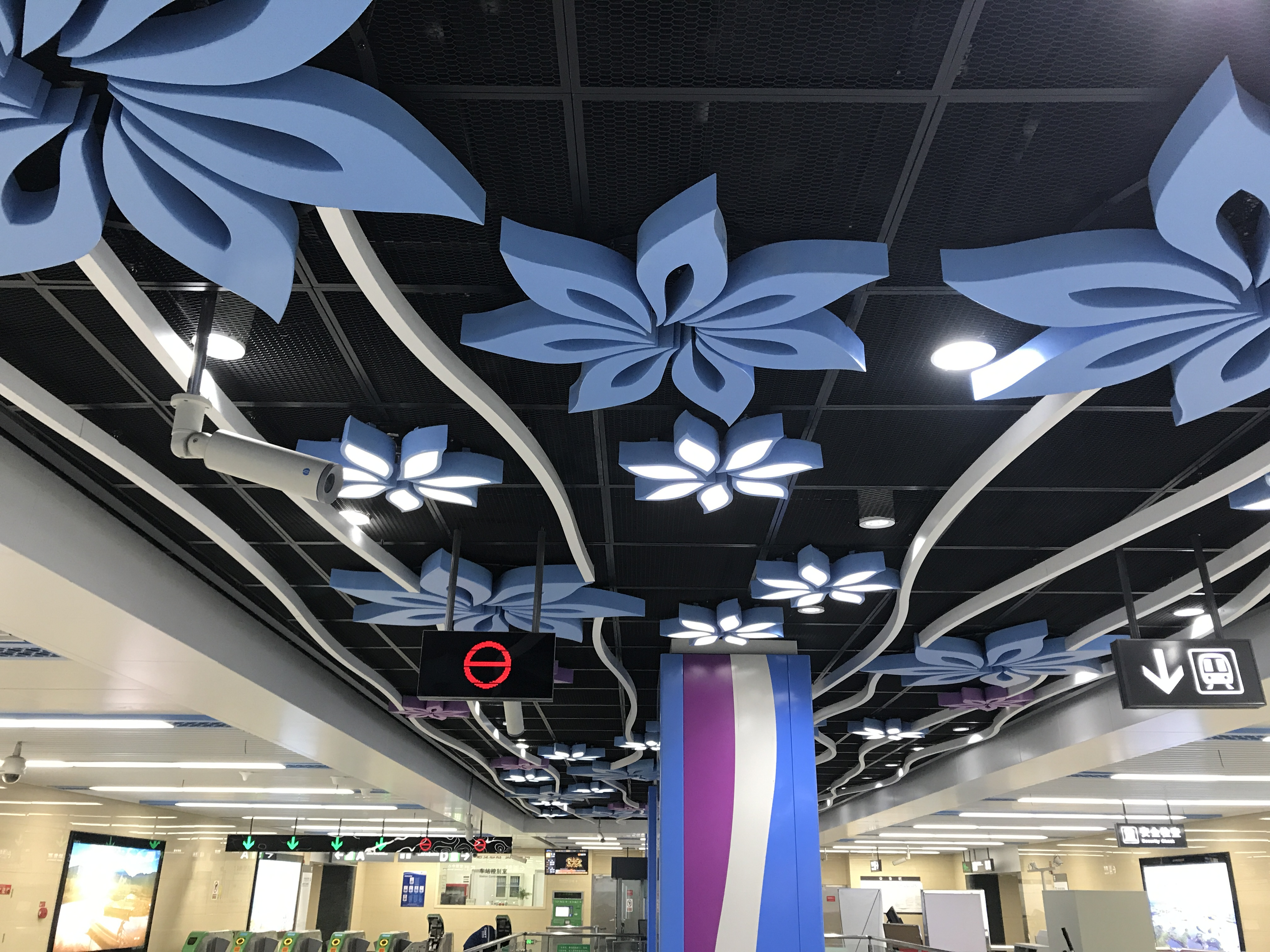 Decoration in Machangba Station, Chengdu Metro